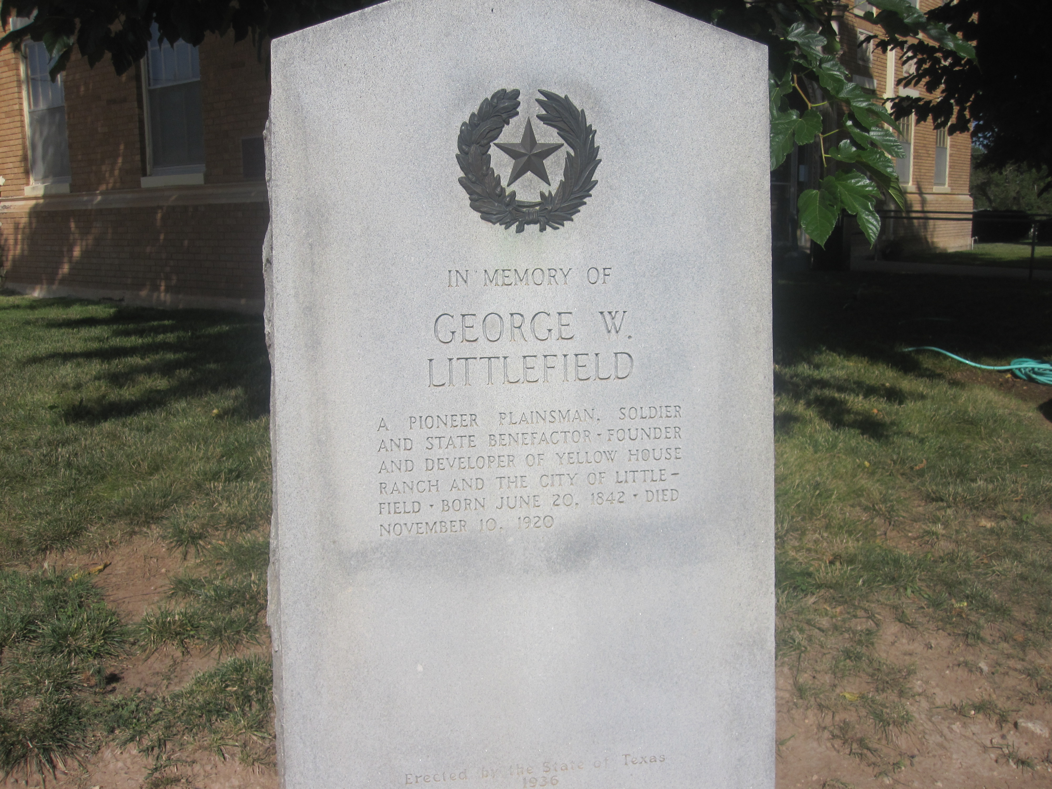 I took photo with Canon camera in Littlefield, TX.